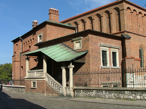 Old Synagogue in Kraków